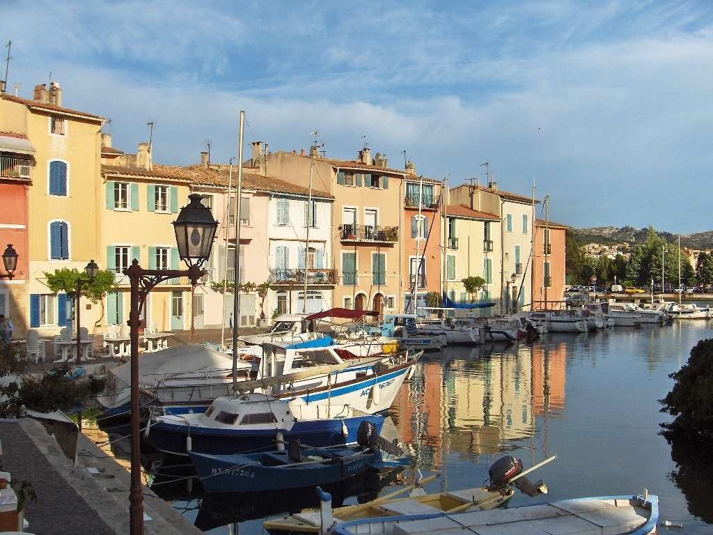 Martigues — Le Miroir aux oiseaux (district of L'Île)